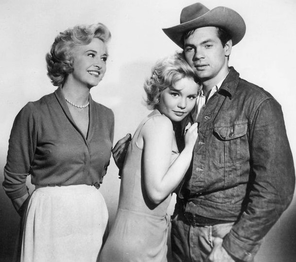 Publicity photo of Marilyn Maxwell, Tuesday Weld and Gary Lockwood from the television program Bus Stop. The episode is "Cherie" and is taken from William Inge's play of the same name which also inspired the movie with Marilyn Monroe.